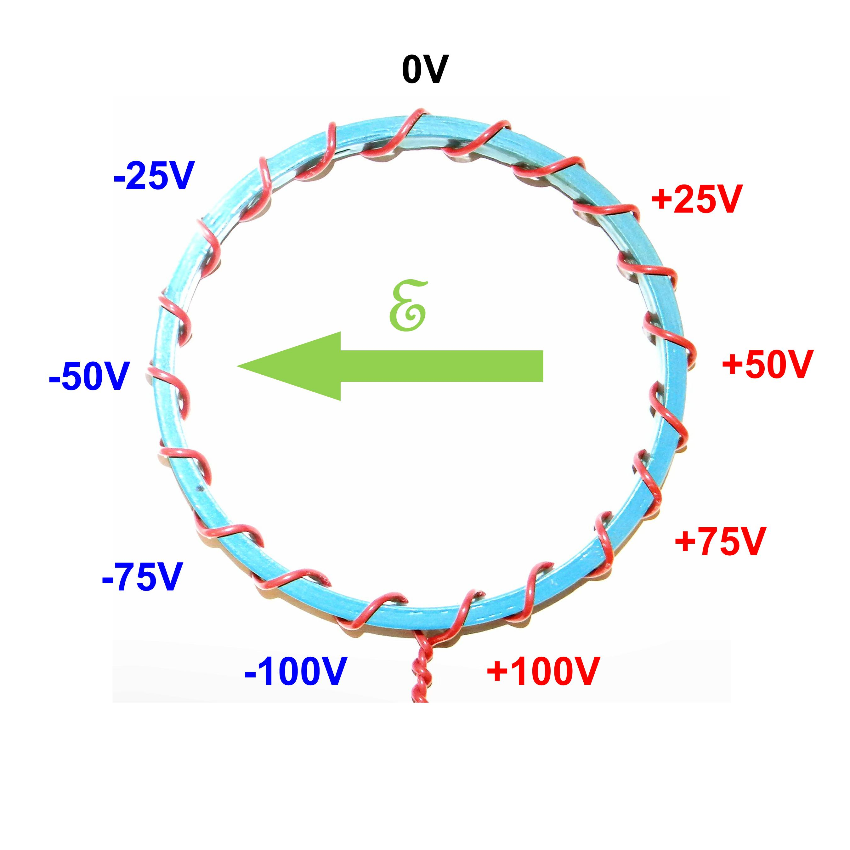 There is a distribution of voltage along the winding. The distribution can lead to an E field in the plane of the toroid. This E-field can cause interference and this toroidal inductor is susseptible if E-fields in the plane of the toroid.